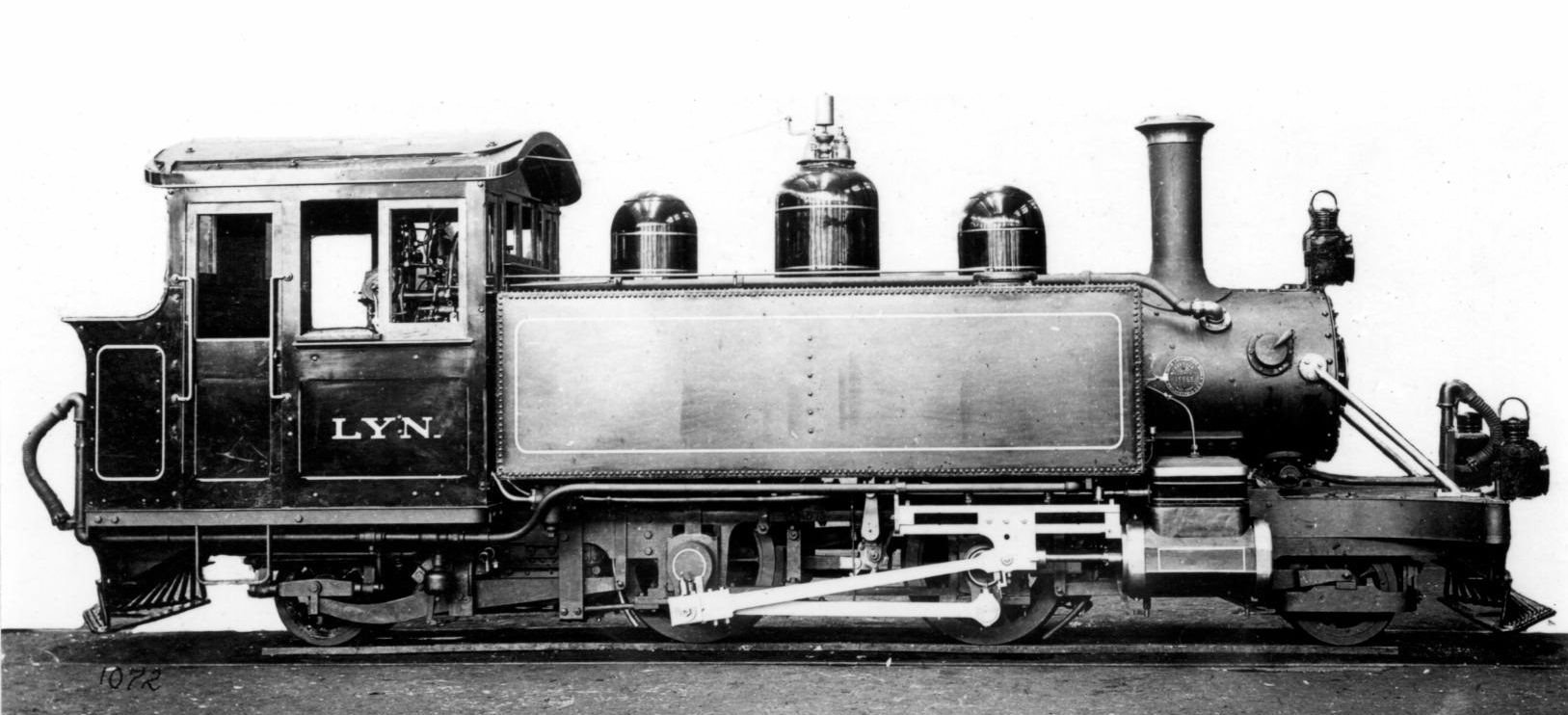 Baldwin Locomotive No. 15965 "LYN" built for the Lynton & Barnstaple Railway, UK